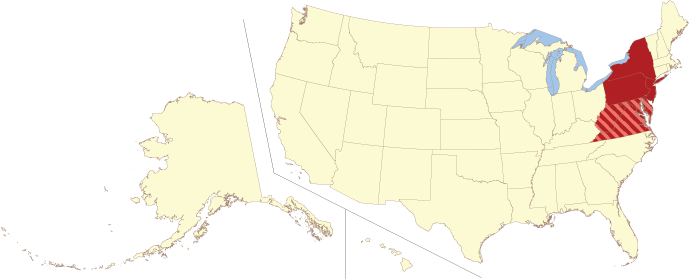 Mid Atlantic states of the United States.